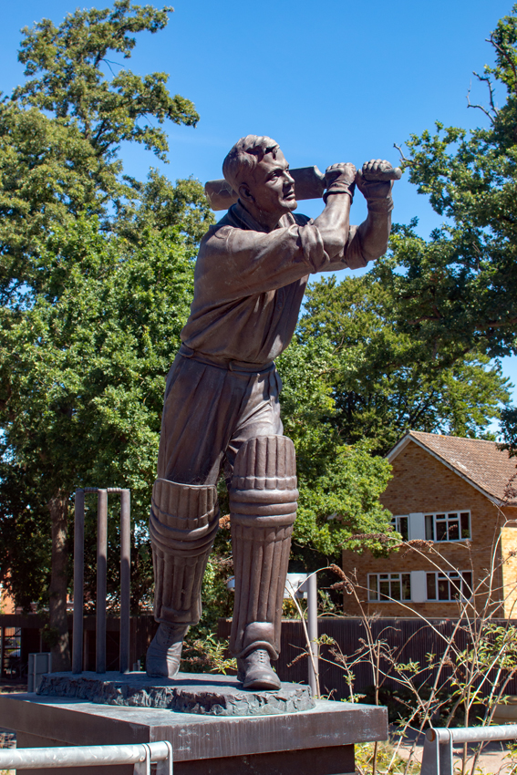 Statue of Eric Bedser batting by Allan Sly. On the south side of Bedser Bridge over the Basingstoke Canal, Woking